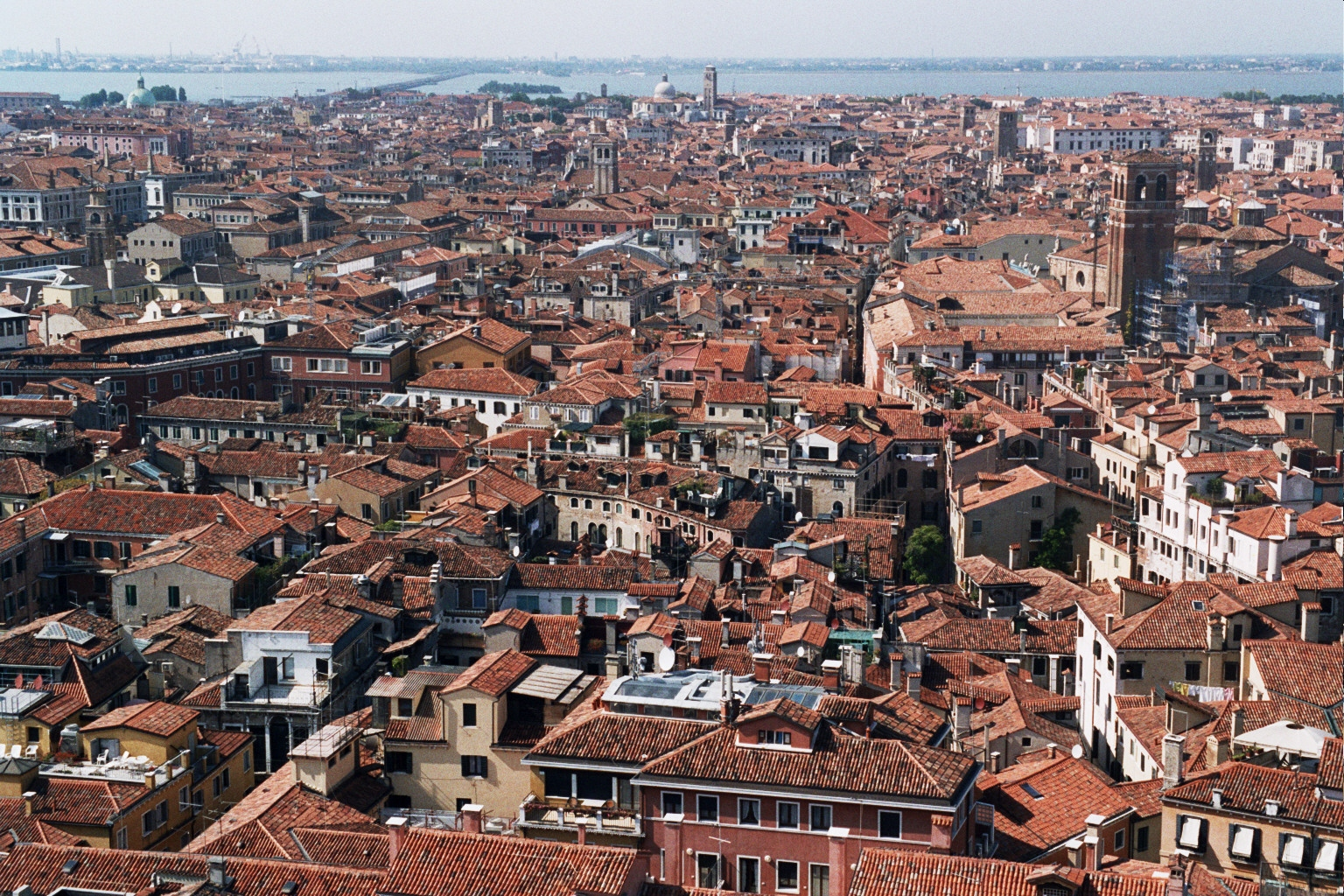 Venice as seen from Sanctus Marcus tower